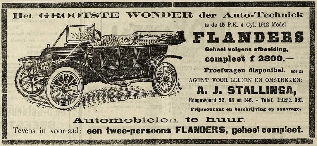 An advertisement for Flanders cars in "Leidsch Dagblad" (a newspaper from Leiden, Netherlands) of 22 June 1912.